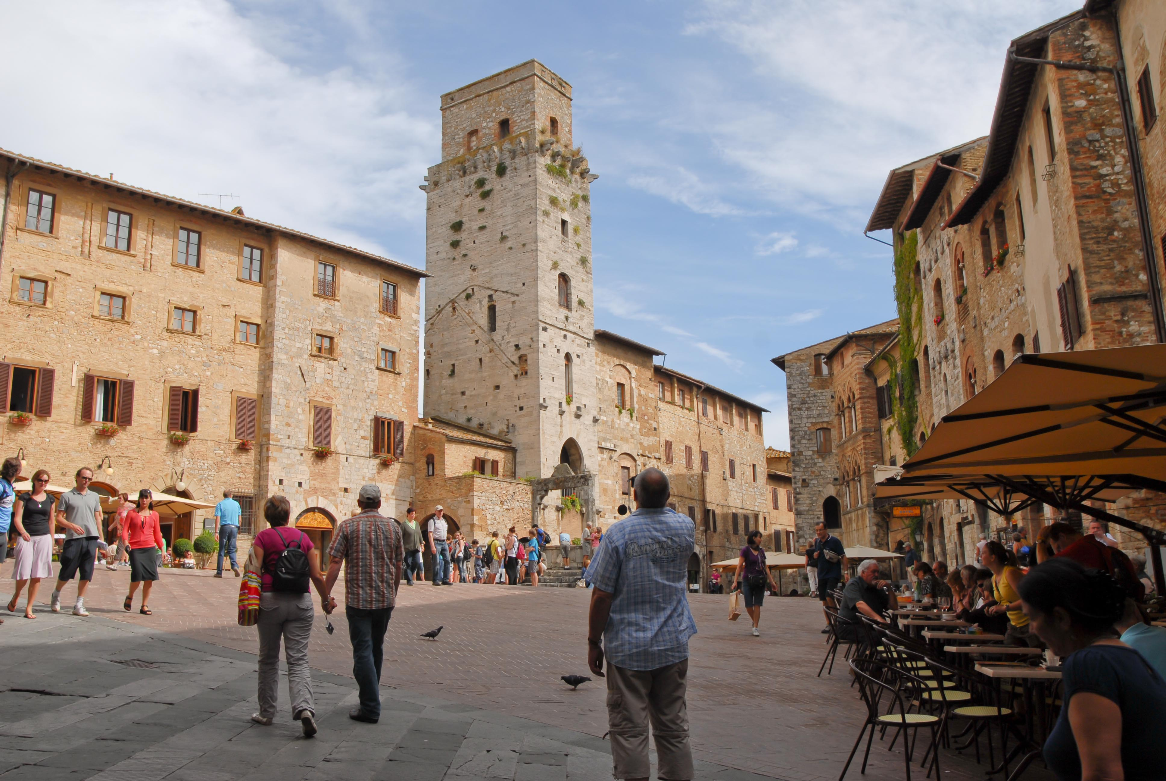 San Gimignano square